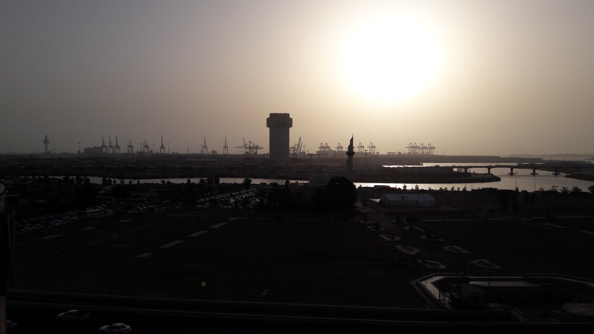 Jeddah Islamic Port